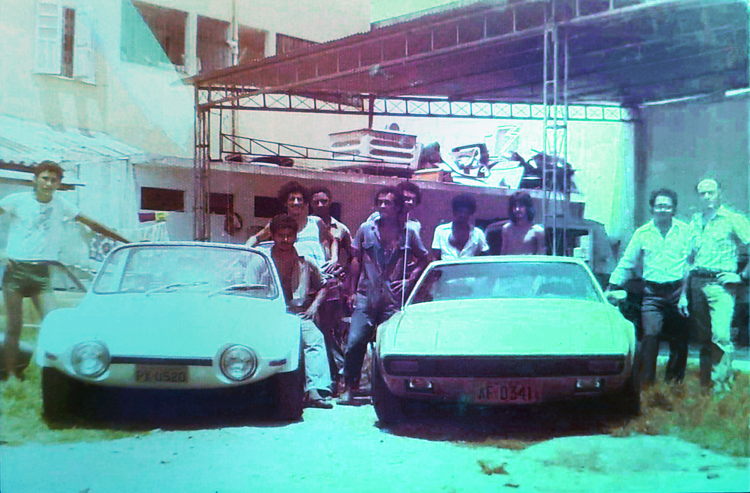 The Malzoni GTM prototype (on the left) in Antônio Pereira's Polyglass workshop. This car was later built by Marques in SP. 35-40 of these were built. Polyglass also manufactured a traditional buggy called "Woody," as well as the low-slung "Woody Sport" which is on the right.